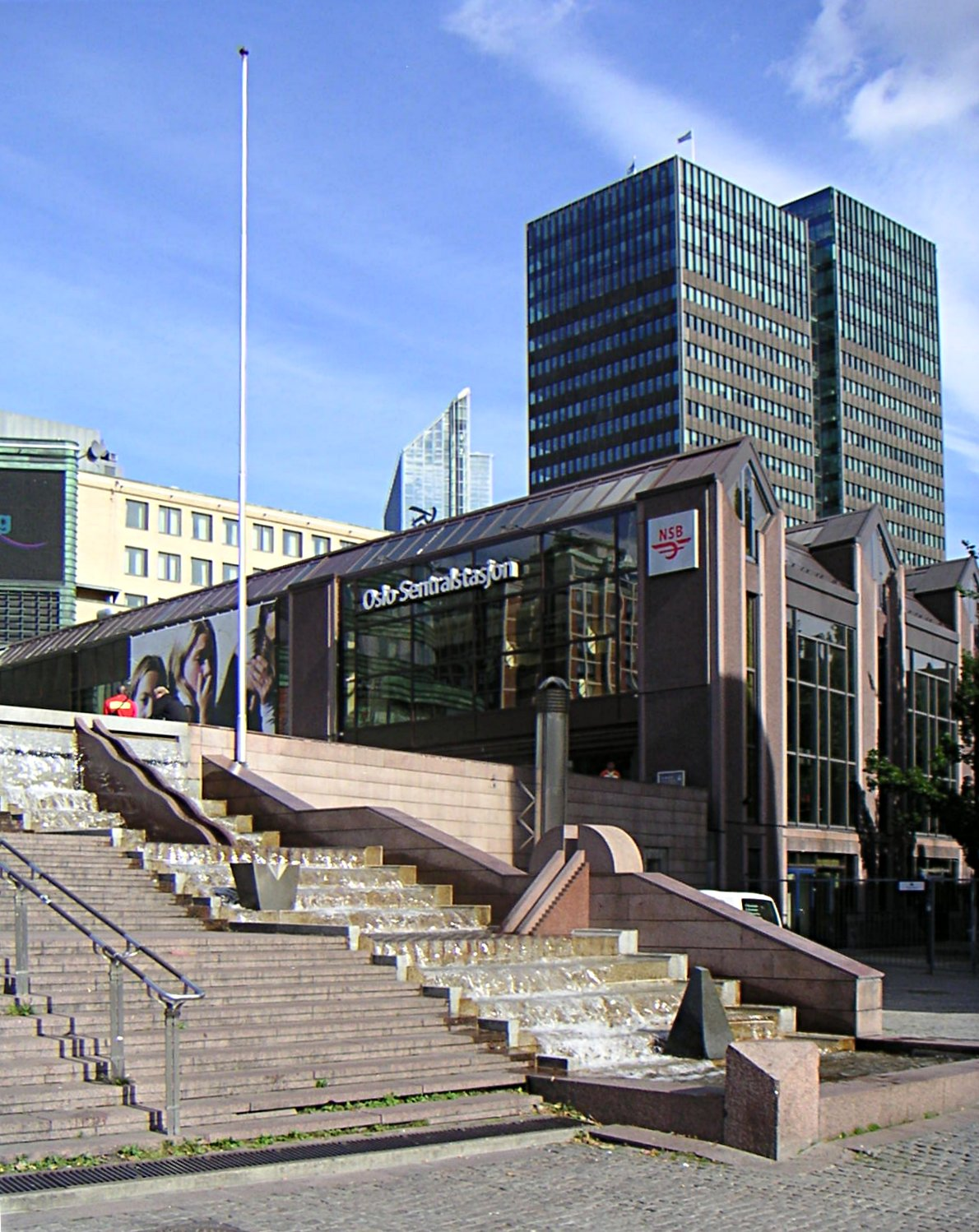 Oslo Sentral station, the tall buildings to the right are known as Posthuset, and the needle like building in the background is Oslo Plaza.